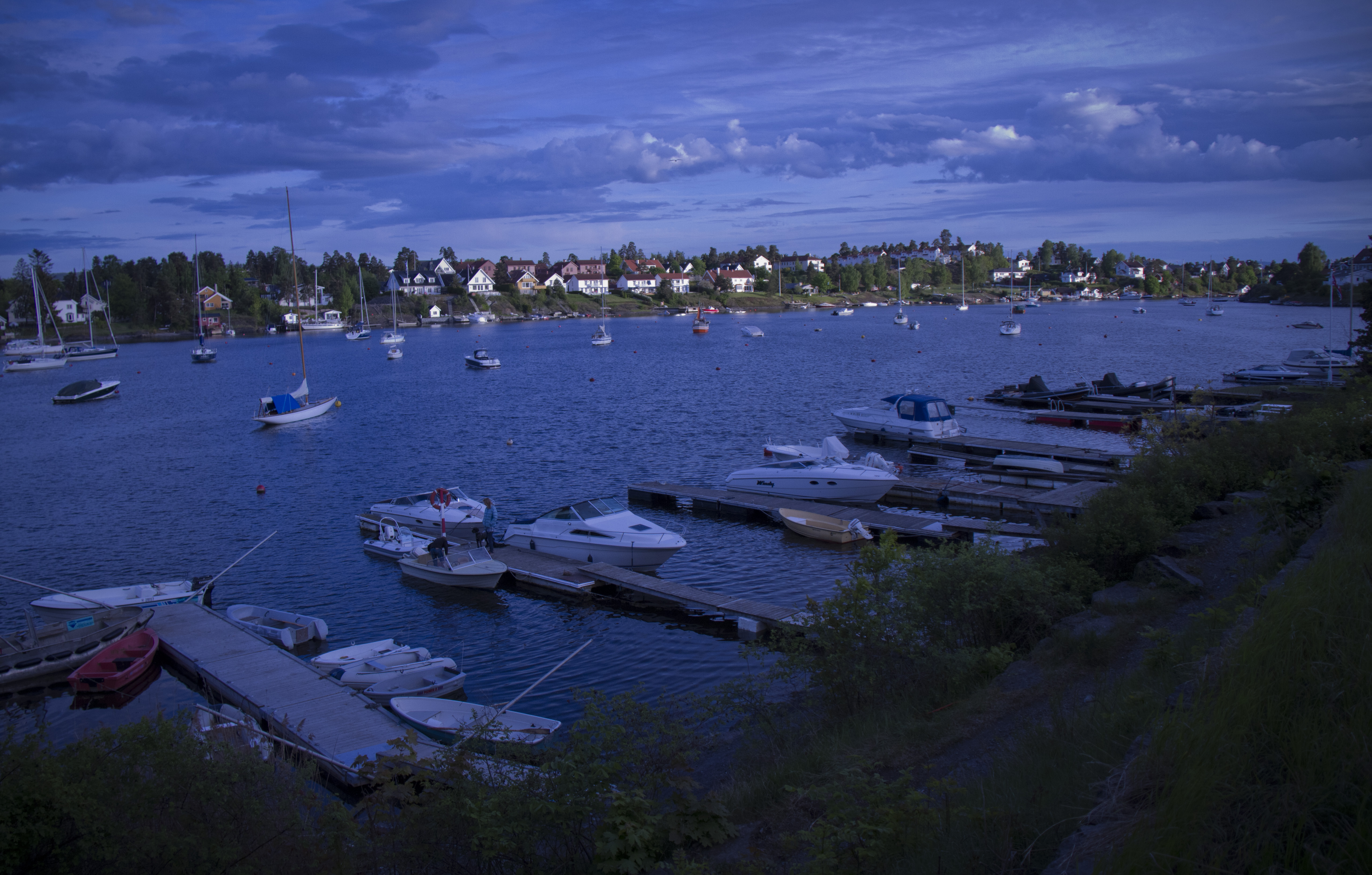 Snarøykilen, Snarøya, Bærum, Akershus, Norway